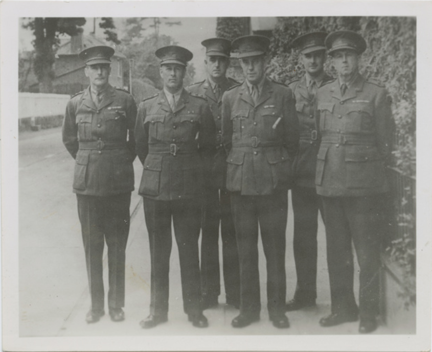 Men of 1st Australian Forestry Group